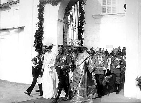 Russian Emperor Nicholas II and his wife and son in Smolensk during the visit.